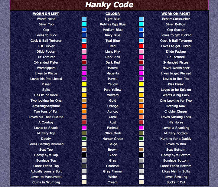 This is a list of modern Hanky Codes